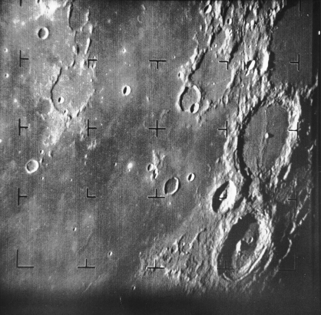 This is the first image of the Moon from a US spacecraft which was taken by Ranger 7 on July 31, 1964 at 13:09 UTC, about 17 minutes before impact. The large crater at center right is Alphonsus.